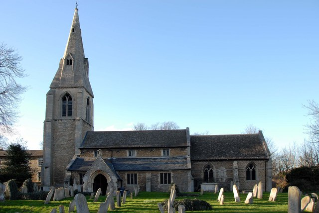 St Margaret of Antioch's parish church, Fletton Avenue, Peterborough, seen from the south